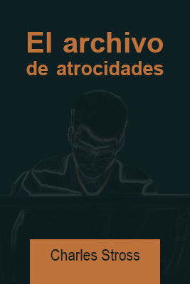 Book cover